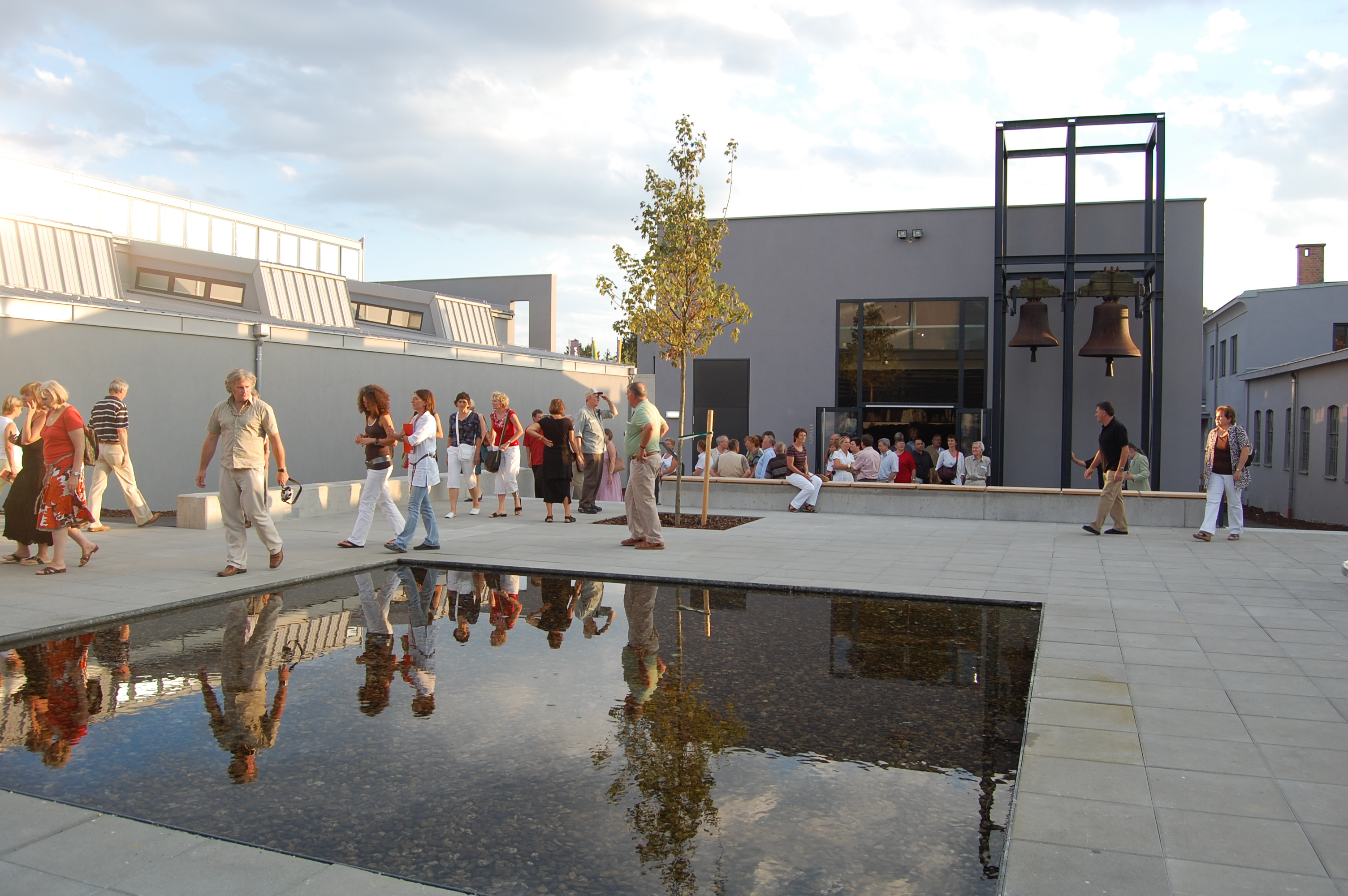 Museumszentrum Mistelbach piazza